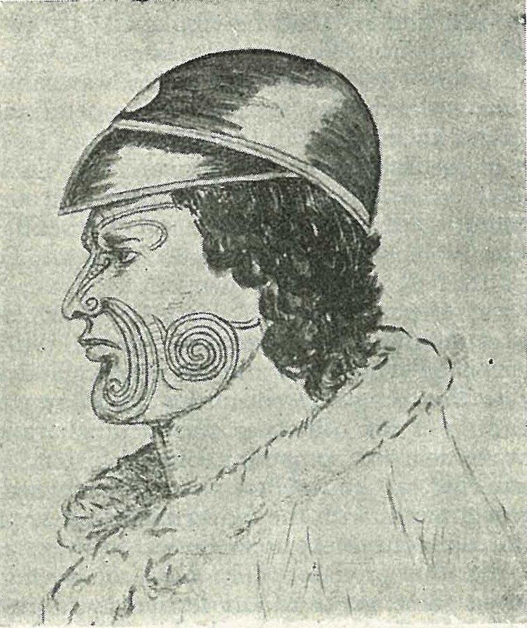 Hone Heke. From a pencil sketch by J. A. Gilfillan.